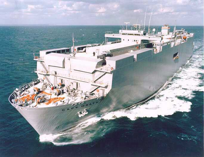 SS Cape Wrath underway